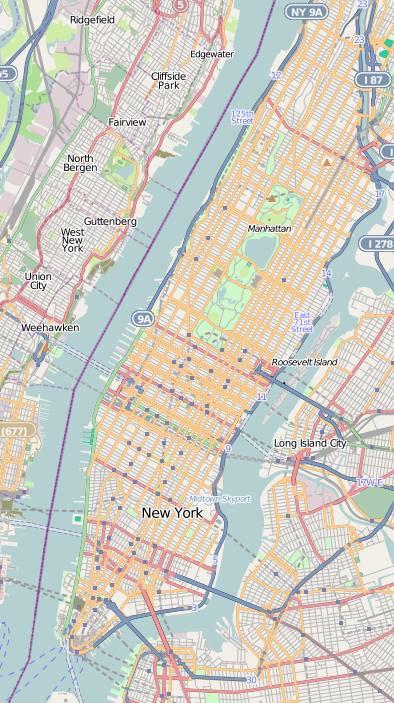 This map of Manhattan was created from OpenStreetMap project data, collected by the community. This map may be incomplete, and may contain errors. Don't rely solely on it for navigation.